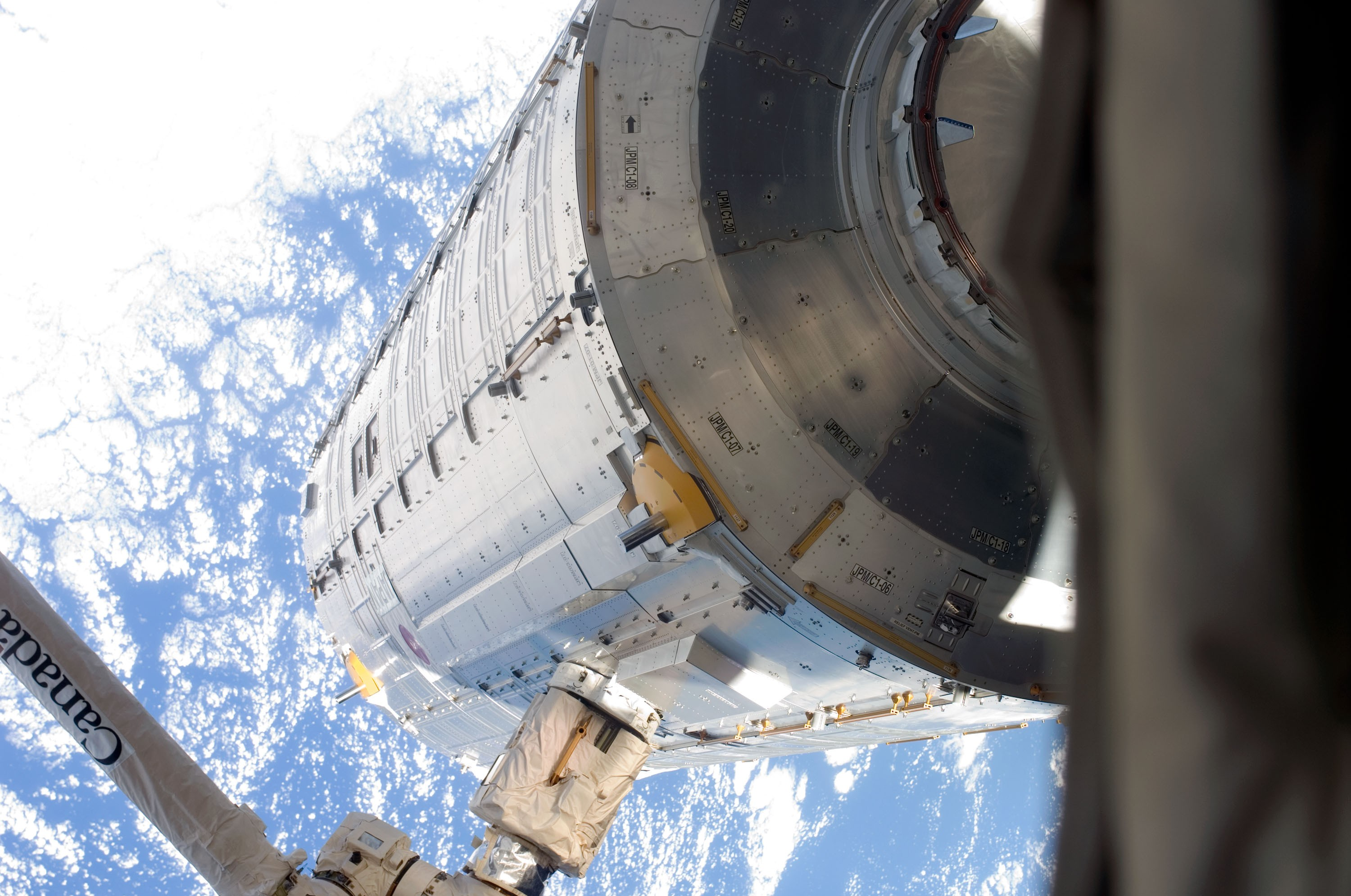 In the grasp of the station's robotic Canadarm2, the Kibo Japanese Pressurized Module (JPM) is moved from its stowage position in Space Shuttle Discovery's (STS-124) payload bay to the port side of the Harmony node of the International Space Station.